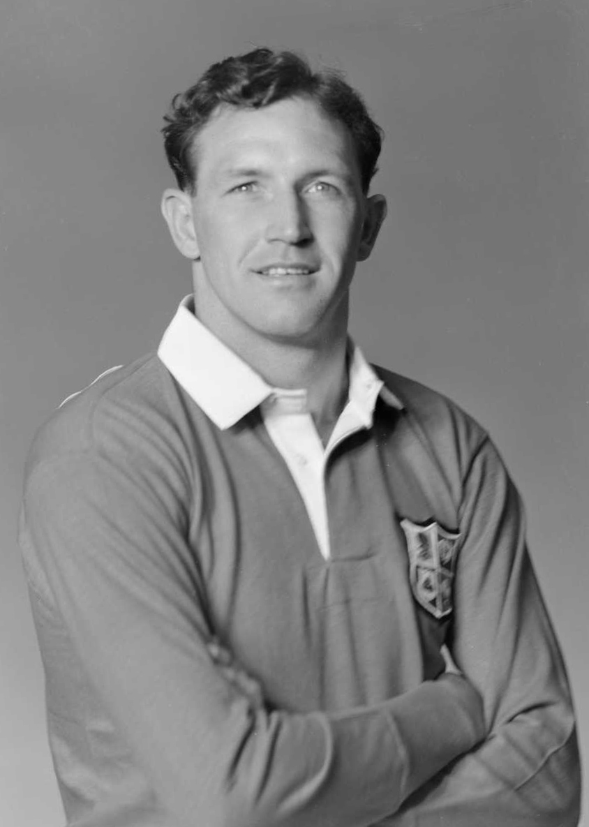 J W McKay, member of the British Lions rugby union team